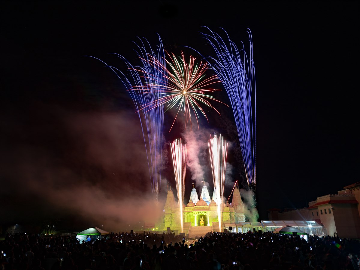 This is what the BAPS Chicago Mandir looks like during the firework show as they Celebrate Diwali.